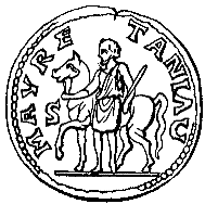 738 woodcuts illustrating the work A Dictionary of Roman Coins, Republican and Imperial (1889). To identify a coin please look at the filename to identify a page number, and check the Dictionary on numiswiki